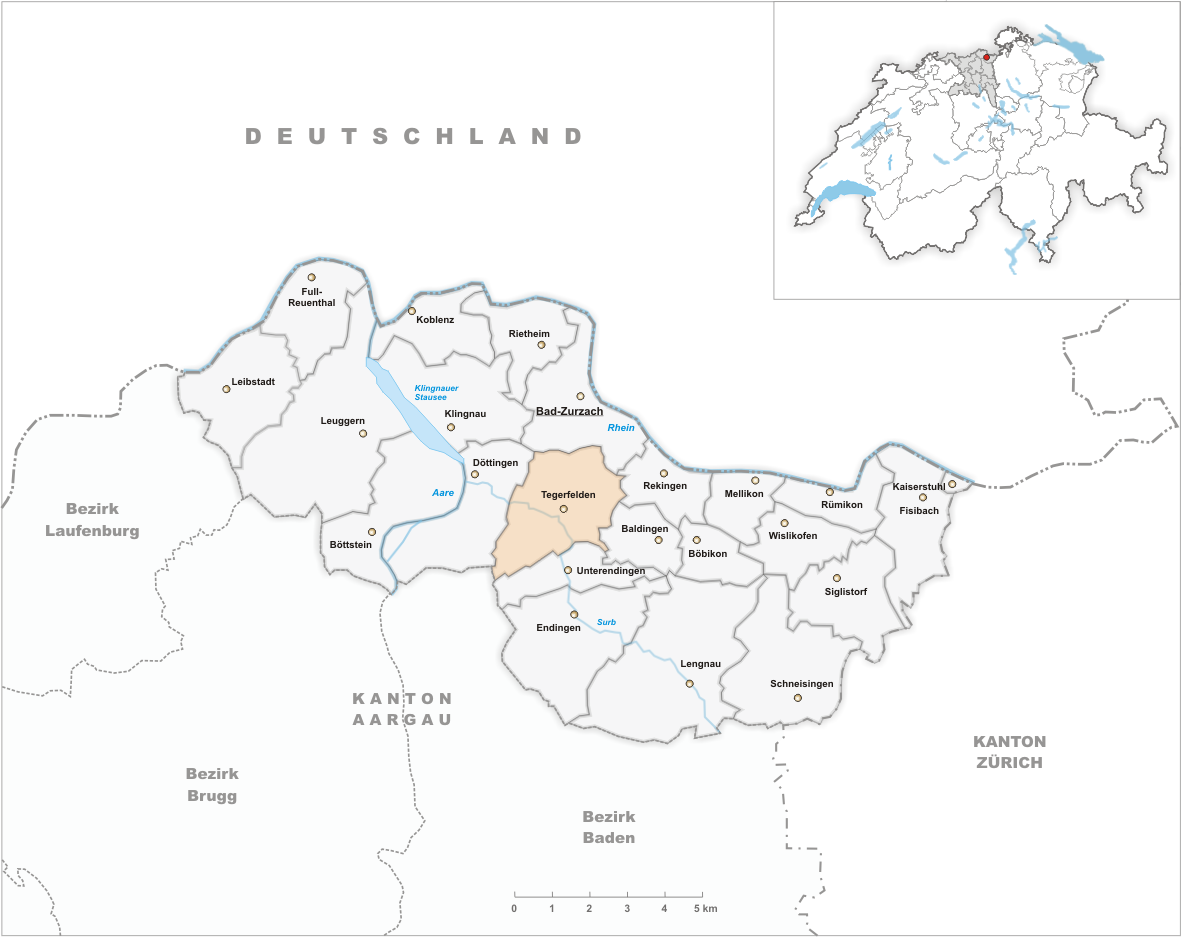 Municipality Tegerfelden